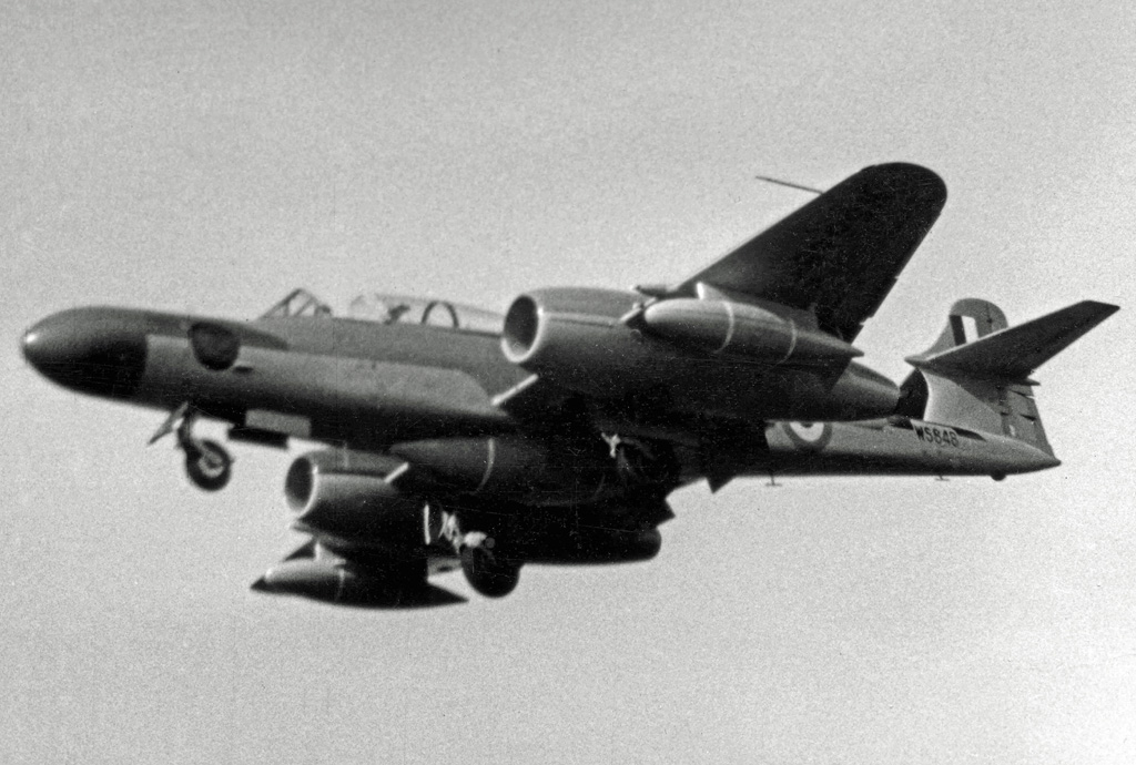 Gloster Meteor NF.14 WS848 built by Armstrong Whitworth Aircraft demonstrating at the 1954 Farnborough air show.